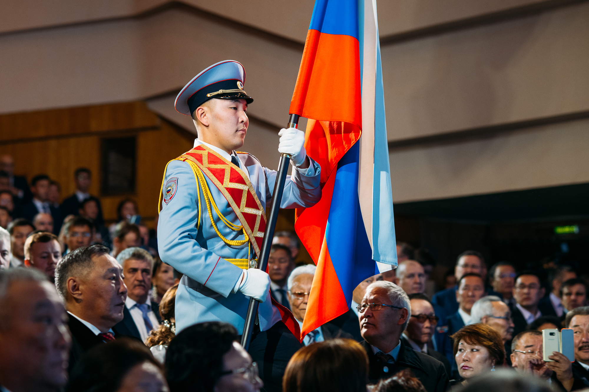 Inauguration of Aysen Nikolayev on 27 September 2018